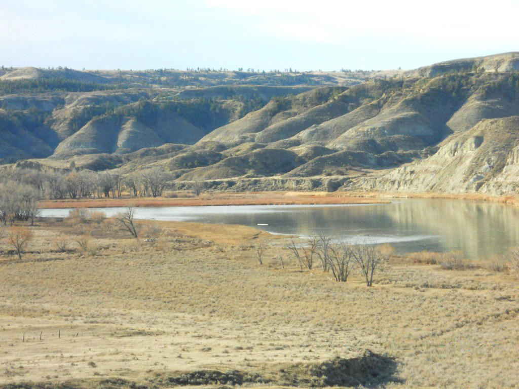 This is a view of the upper end of Cow Island, in the Missouri. It lies just below the mouth of Cow Creek. The island is created from sediments washing out from Cow Creek in flood season. This is one of the larger islands in the Missouri. It forms a natural crossing point on the Missouri. During the steamboat era (1860 to the mid 1880's) the Missouri was the path way to the mines in western Montana. Above this point the Missouri had many rapids. In the summer and fall, the river levels dropped, and steamboats could not get up to Ft. Benton, the up river terminus. They had to drop their cargos here. This area became known as Cow Island Landing. The freight was then north and west hauled up Cow Creek, through the Missouri Breaks and out onto the northern Montana plains and on to Ft. Benton. In ancient times Cow Island was a Missouri River crossing point for bison and nomadic Indians. Now the bison and Indians are gone, as are the steamboats. Cow Island lies in a remote and isolated area of the Missouri Breaks in Montana.